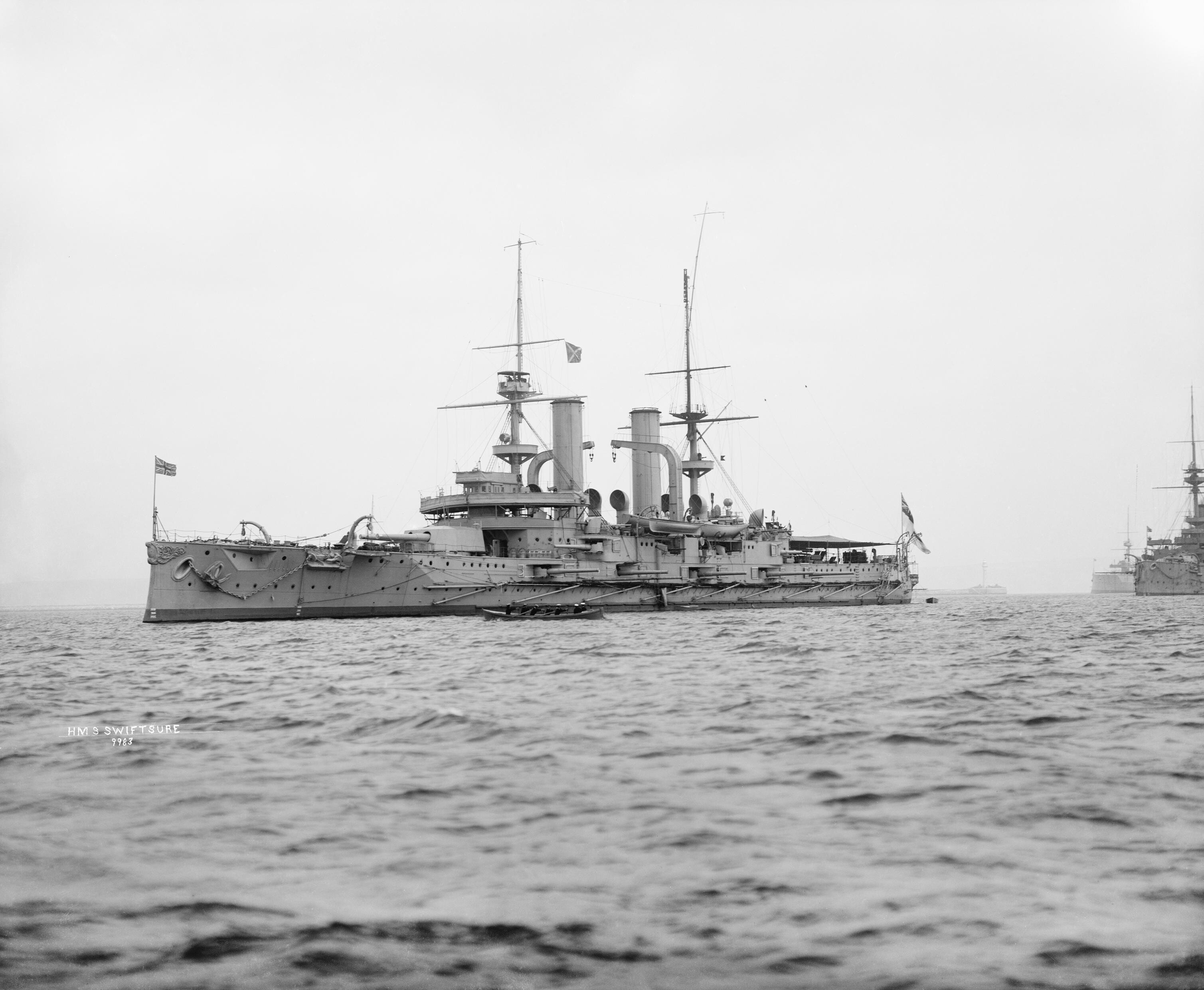 British battleship HMS Swiftsure (1903)